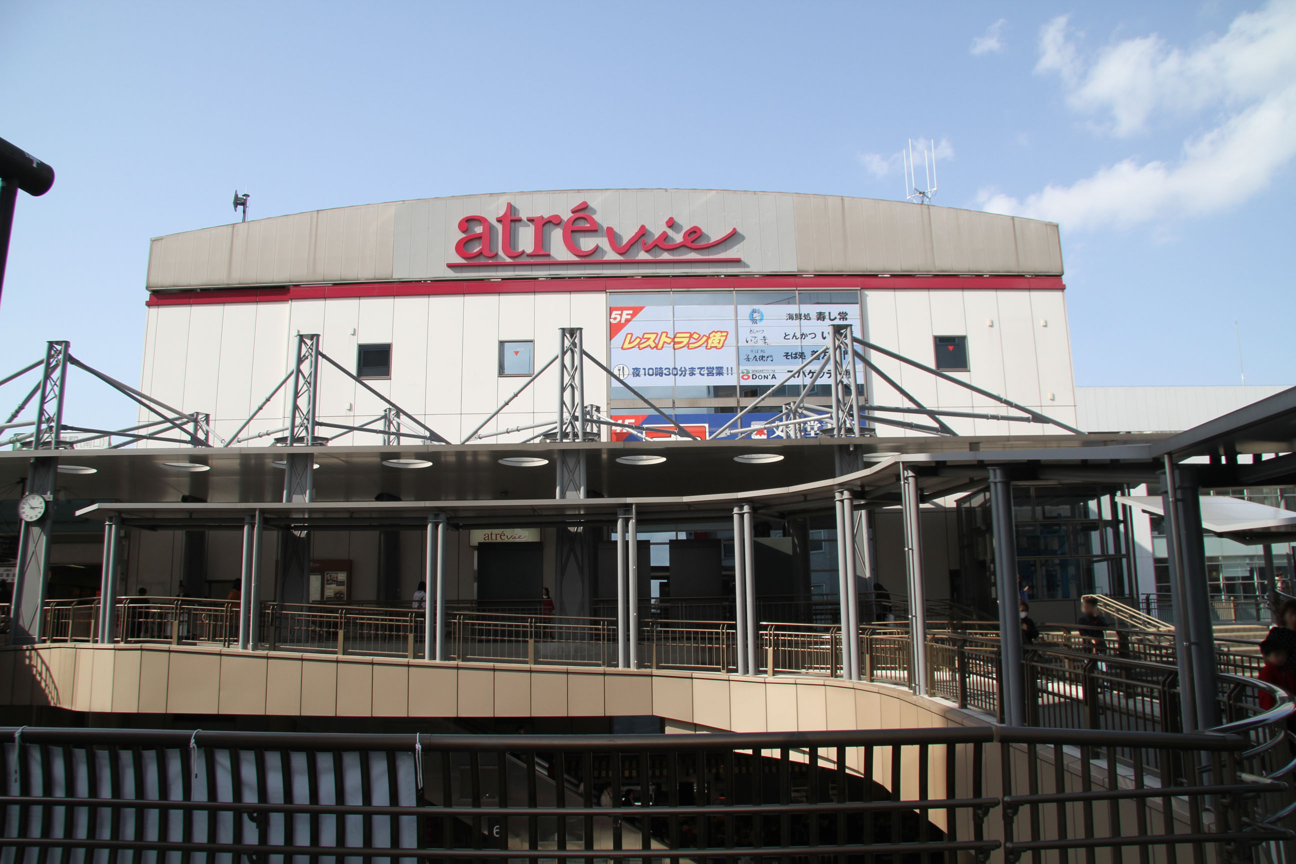 atré vie Mitaka, Mitaka, Tokyo, Japan